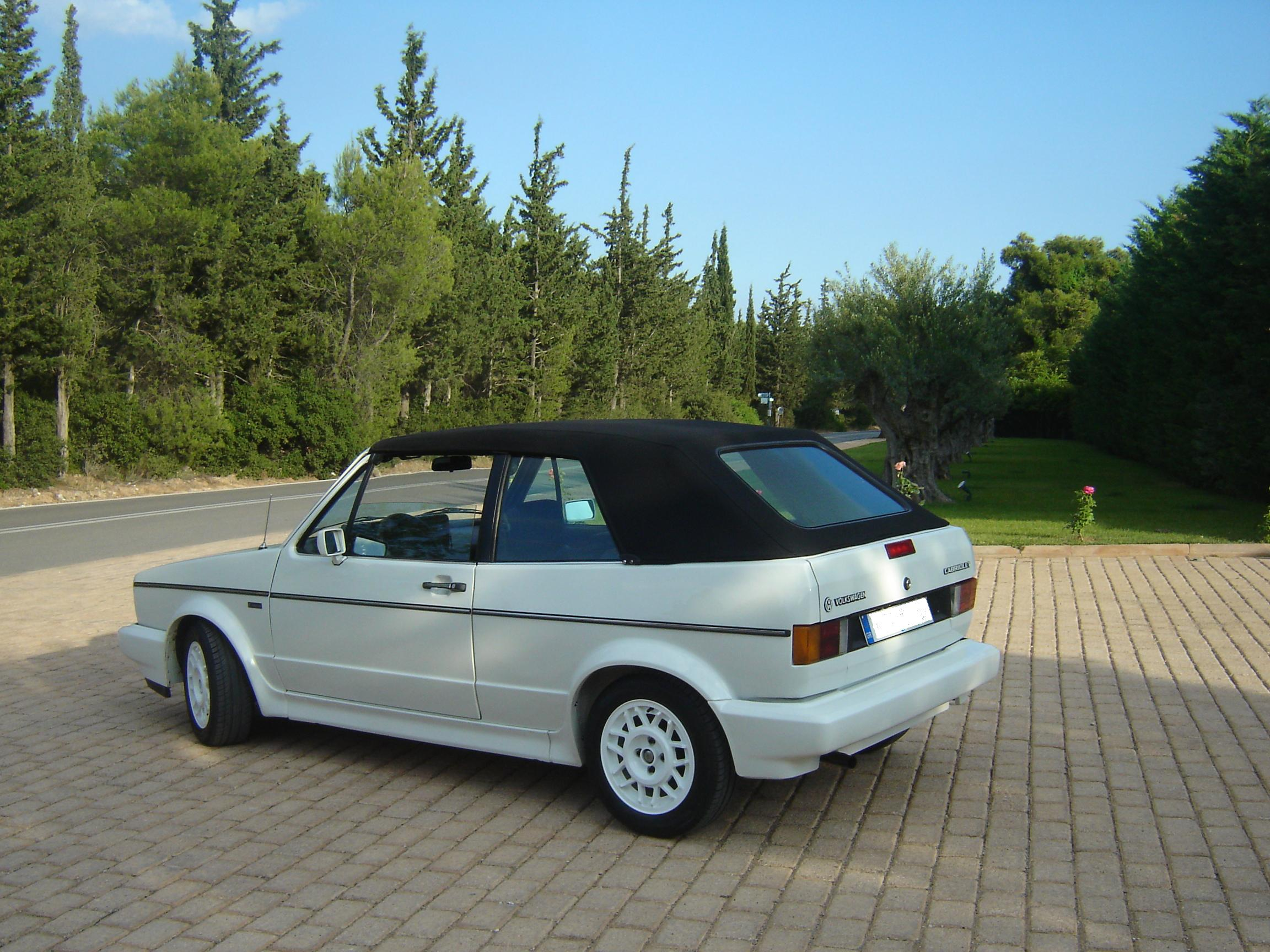 VW Golf Mk1 cabriolet.